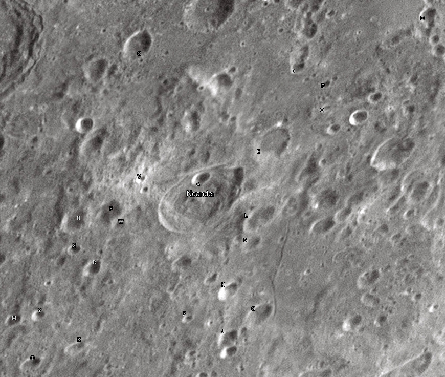 Neander lunar crater as seen from Earth with satellite craters labeled